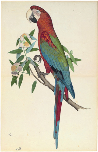 A Green-Winged Macaw, folio, possibly from the 'Impey Album,' Attributed by inscription to Shaikh Zain al-Din, Company school at Calcutta, about 1780, opaque watercolor on paper. San Diego Museum of Art, Edwin Binney 3rd Collection, 1990:1357